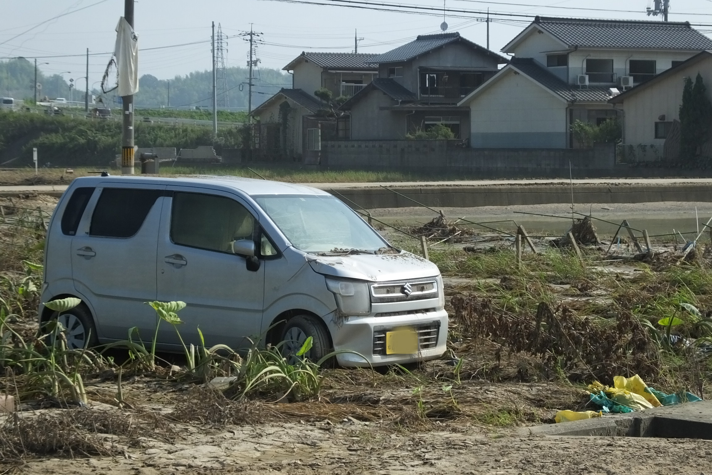 2018-07-14 Floods of Mabi, Kurashiki City 倉敷市真備 平成30年7月豪雨被害